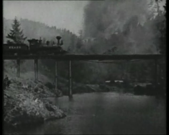 Scene from the movie The General. 1926.